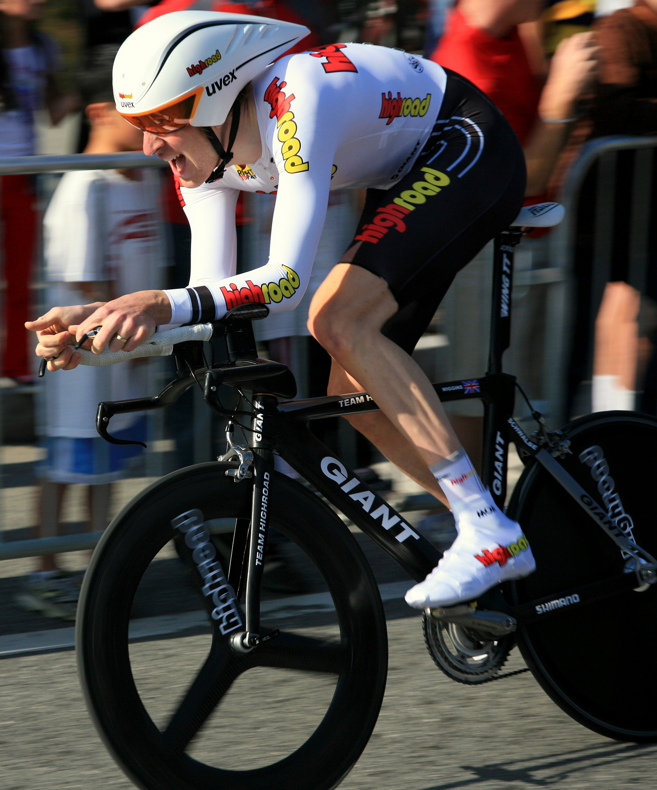 Bradley Wiggins at the Prologue of the Tour of California in Palo Alto